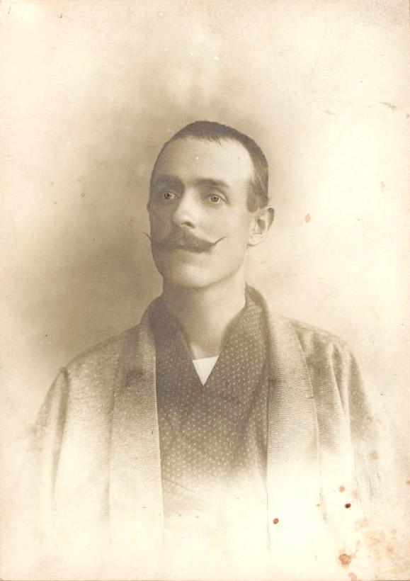 Private Upham posed for this studio portrait wearing traditional Chinese attire, sometime after the end of the siege of Peking during the Boxer Rebellion. Upham later earned a Medal of Honor for his efforts during the siege. From the Oscar J. Upham Collection (COLL/3085) at the Marine Corps Archives & Special Collections.